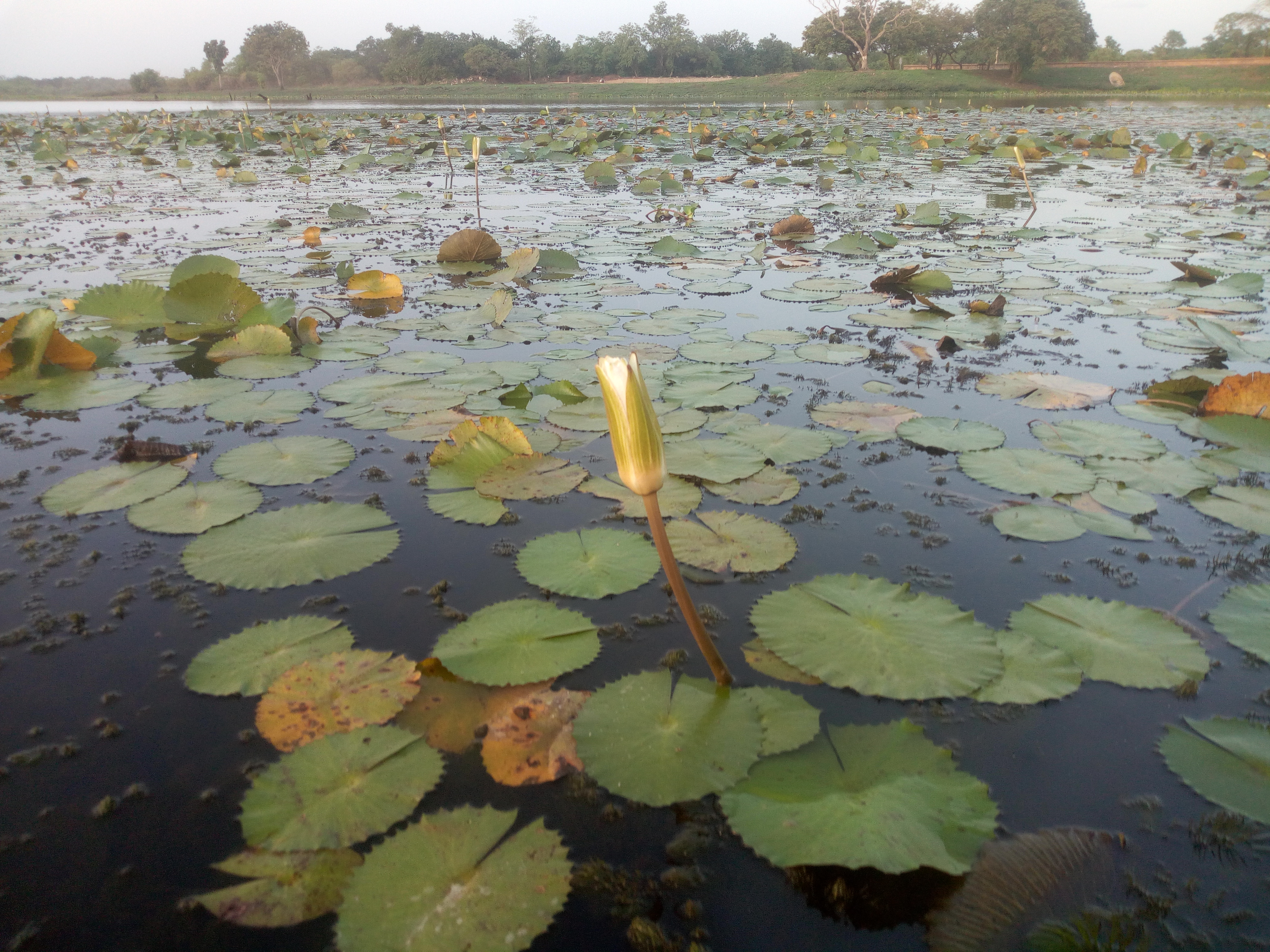 This photo has been taken on the lake of Opkara nearest Parakou city during sediment core extraction. The lake is one of the river flooding to the Oueme river which is the biggest river crossing Benin to the southern east till Nigeria